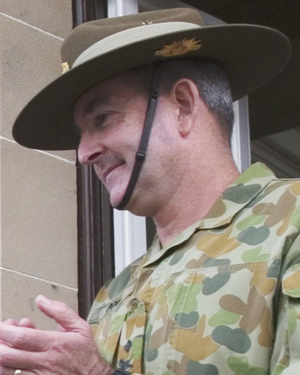 Australian Major General Ash Power, cropped from 070616-M-6609K-235 Councilor Margaret Strelow, the mayor of Rockhampton, presents Australian army Maj. Gen. Ash Power, commander 1 Division, a ceremonial plaque during the opening day of the exercise Talisman Sabre 2007. The biennial exercise is designed to train Australian and U.S. forces in planning and conducting combined task force operations, which will help improve combat readiness and interoperability. (U.S. Marine Corps photo) (Released)